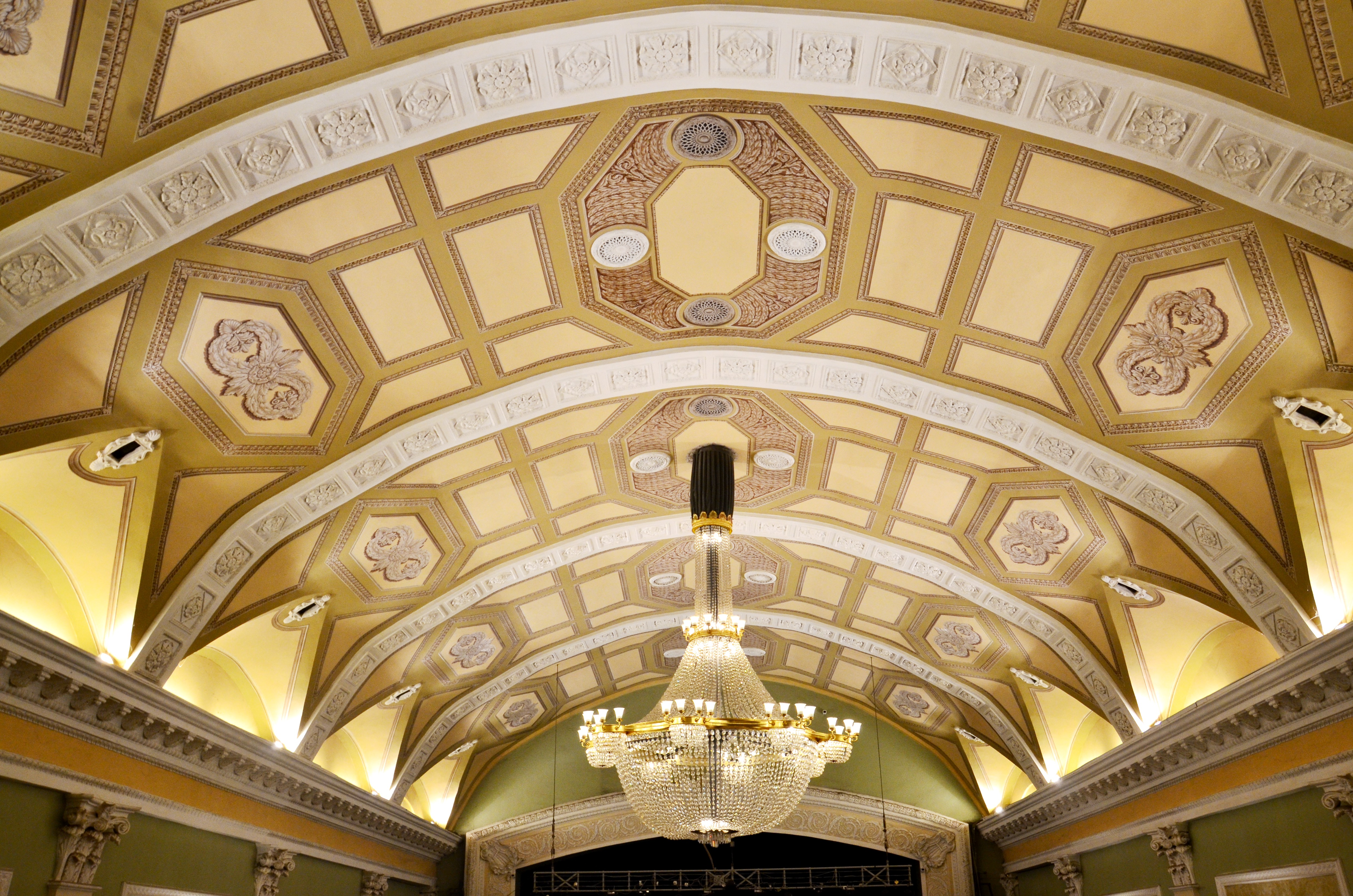 Interior of Maxim Gorky National Academic Drama Theatre